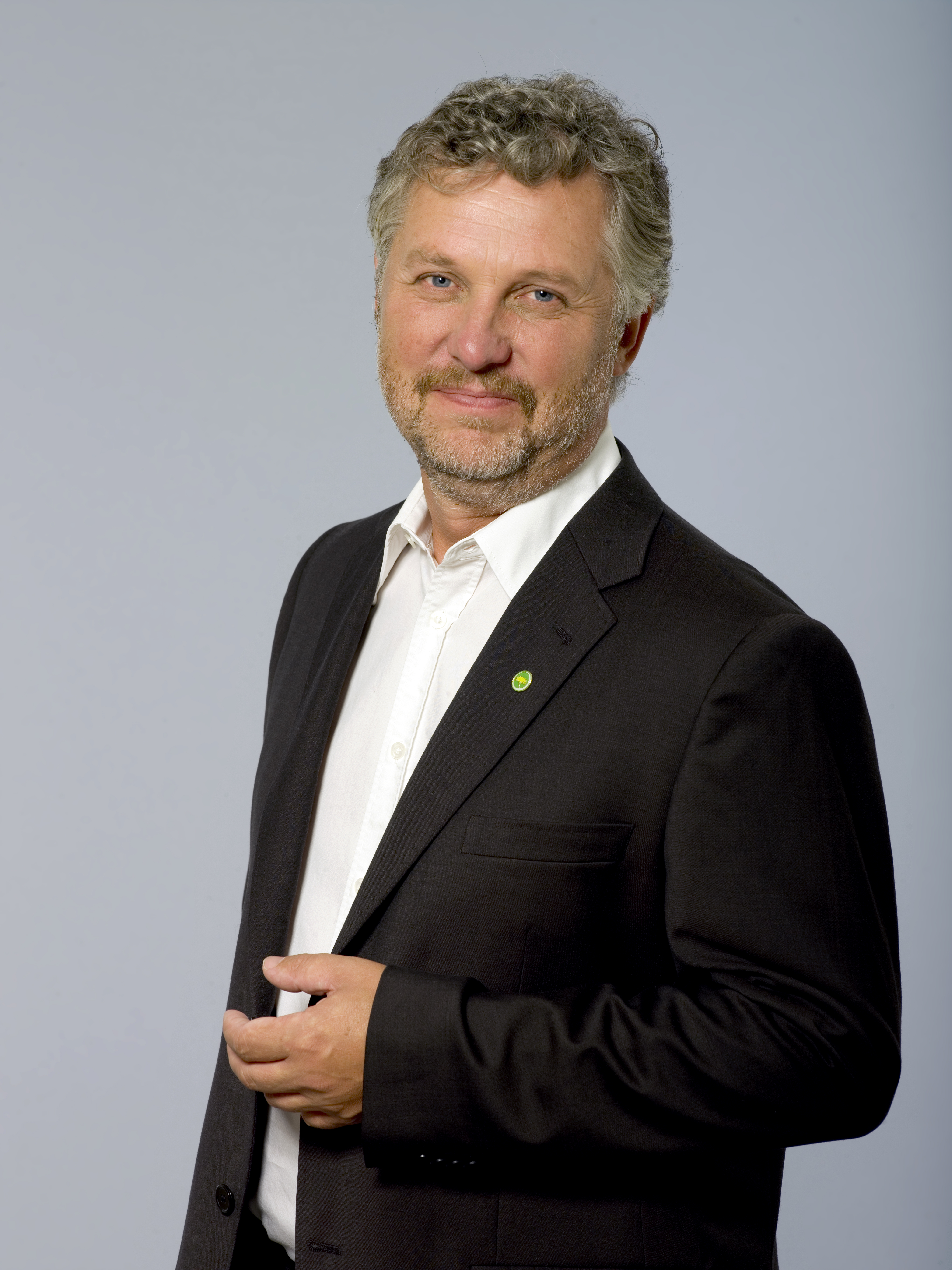 The Swedish Greens spokesperson Peter Eriksson